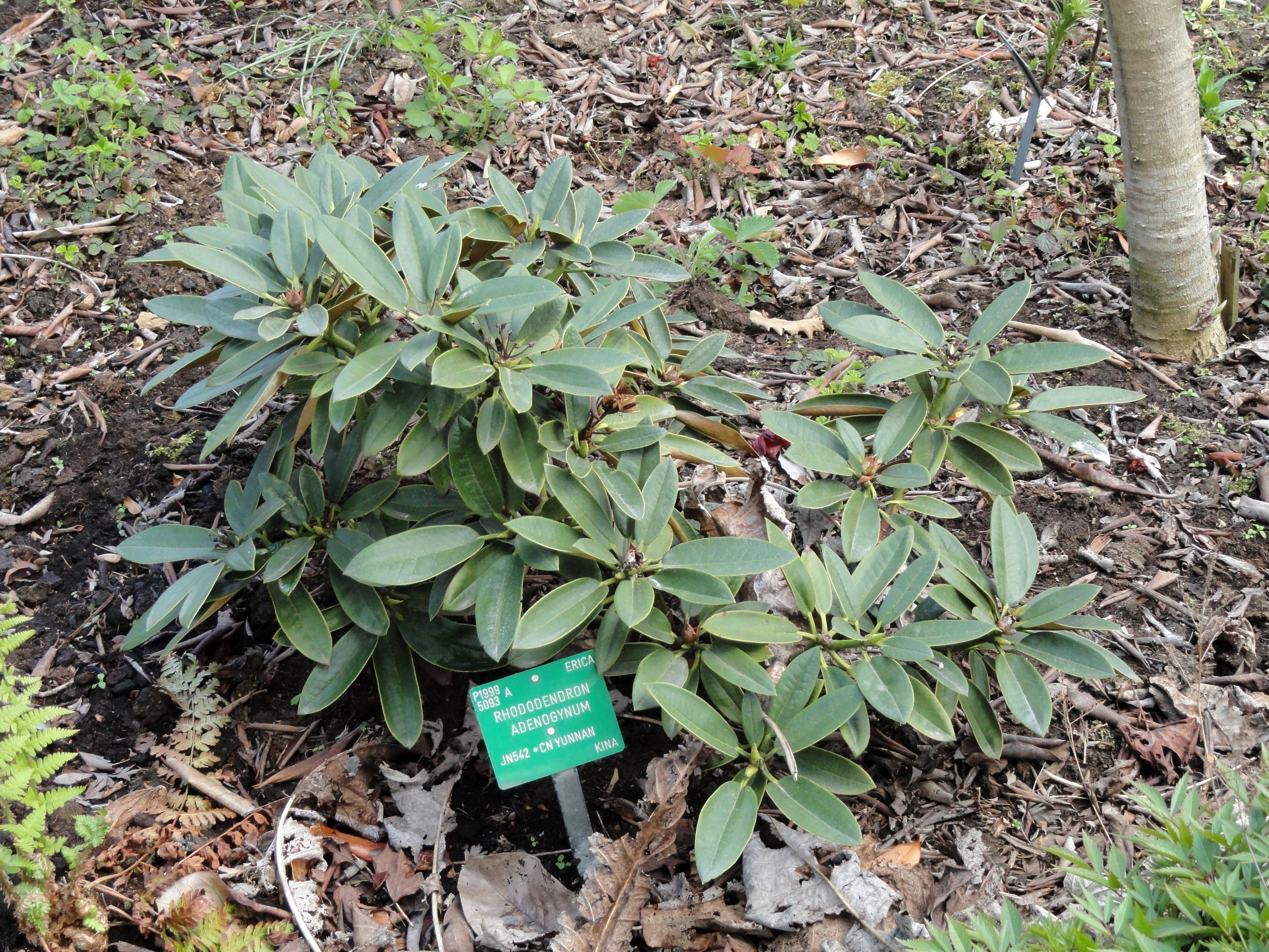 Rhododendron adenogynum specimen in the University of Copenhagen Botanical Garden, Copenhagen, Denmark.